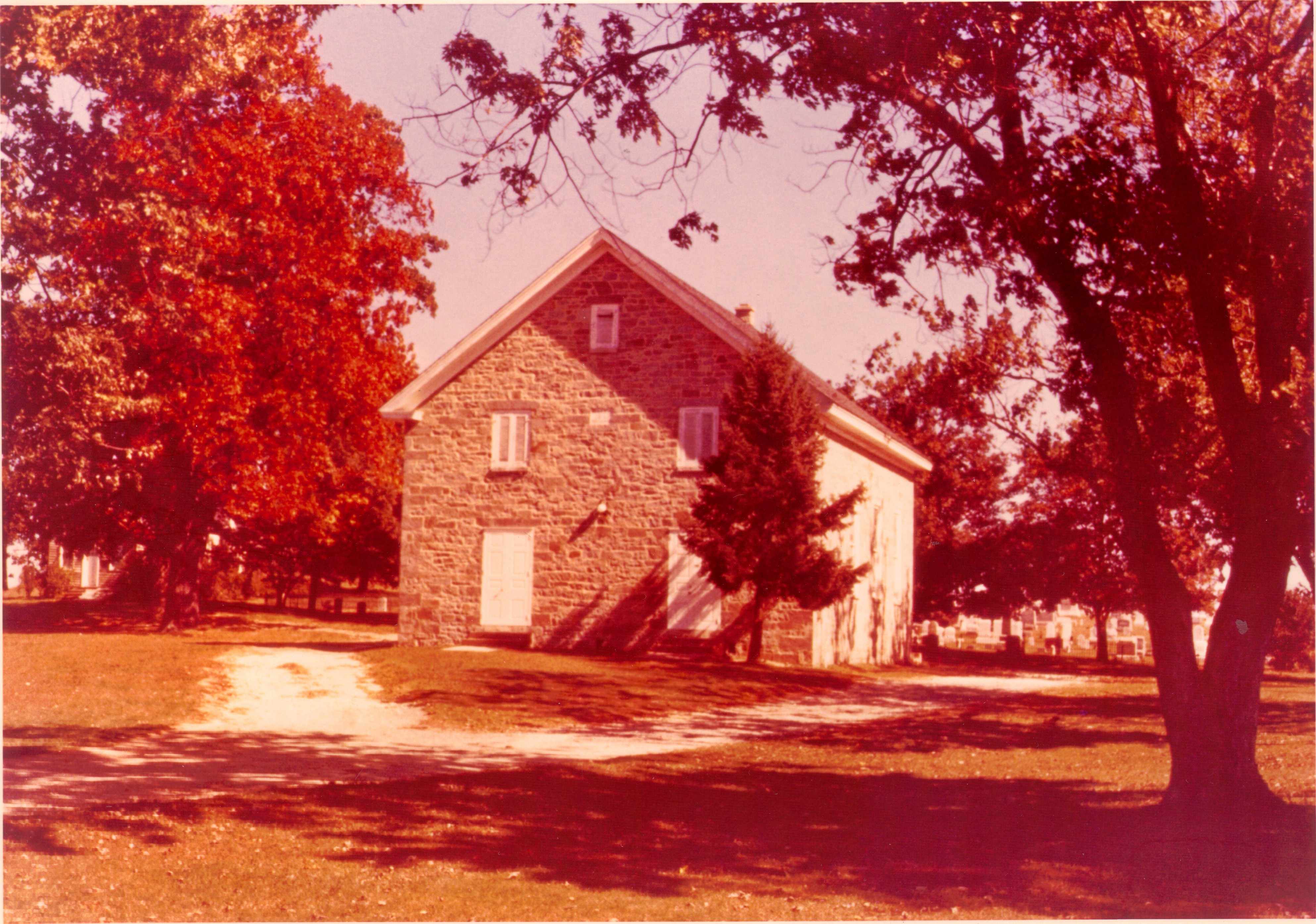 Rock Run United Methodist Church, Level, Harford County, Maryland (near Darlington, Maryland).